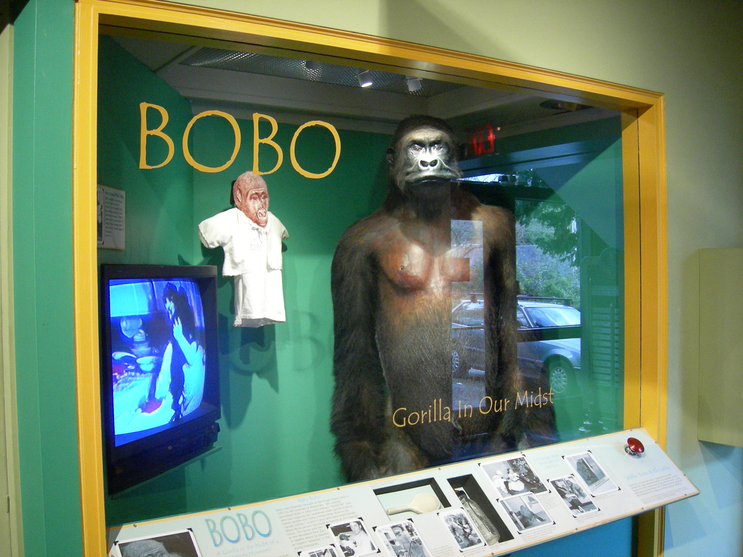 Bobo the gorilla, Museum of History and Industry (MOHAI), Seattle, Washington.